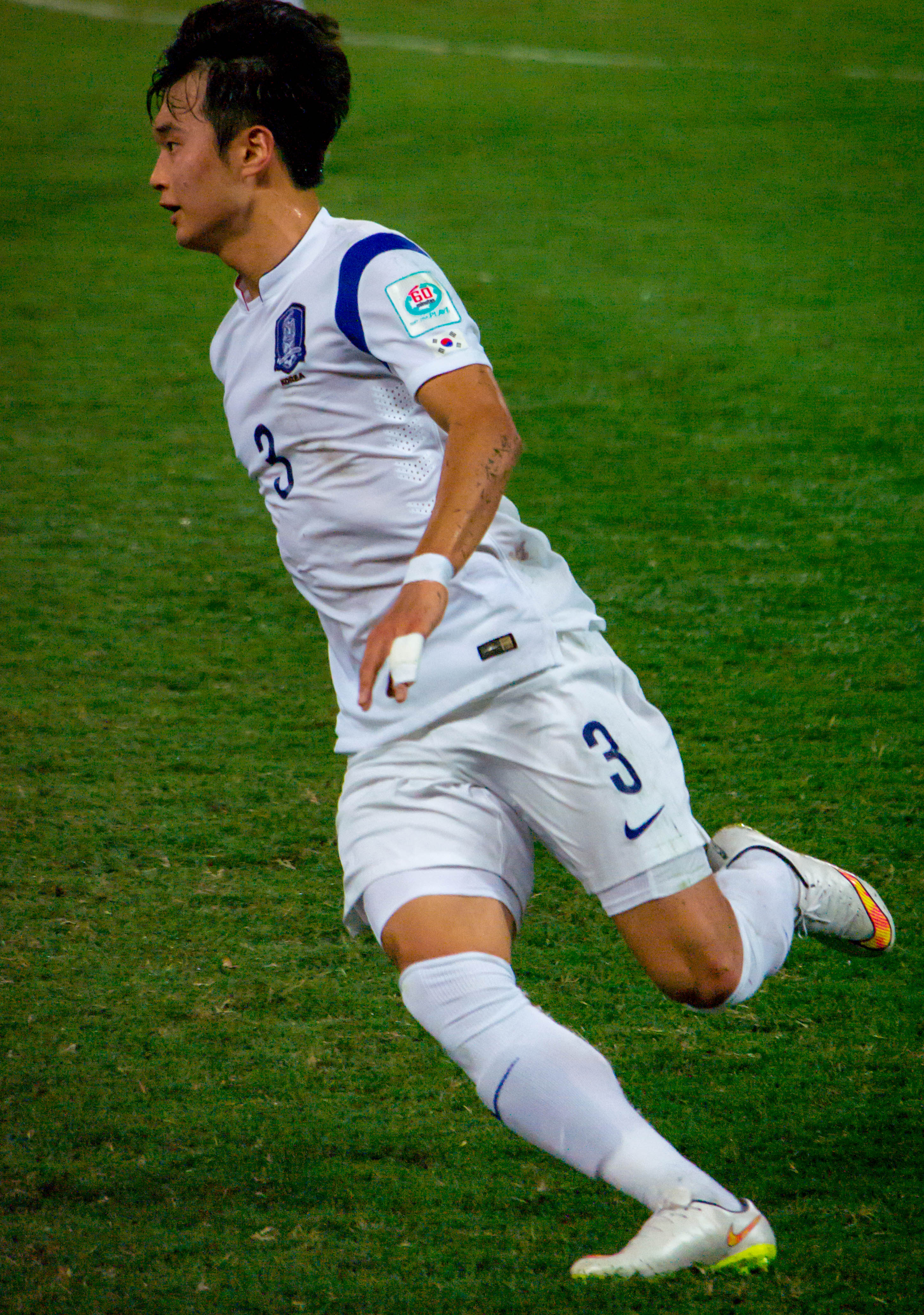 Australia v Sth Korea AFC Asian Cup